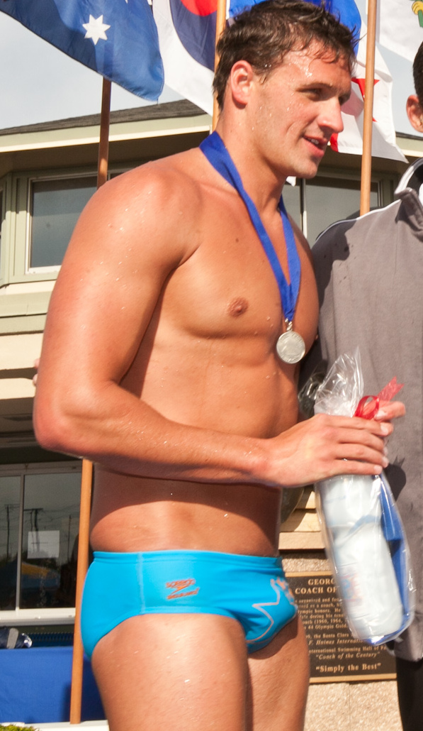 400 IM winners